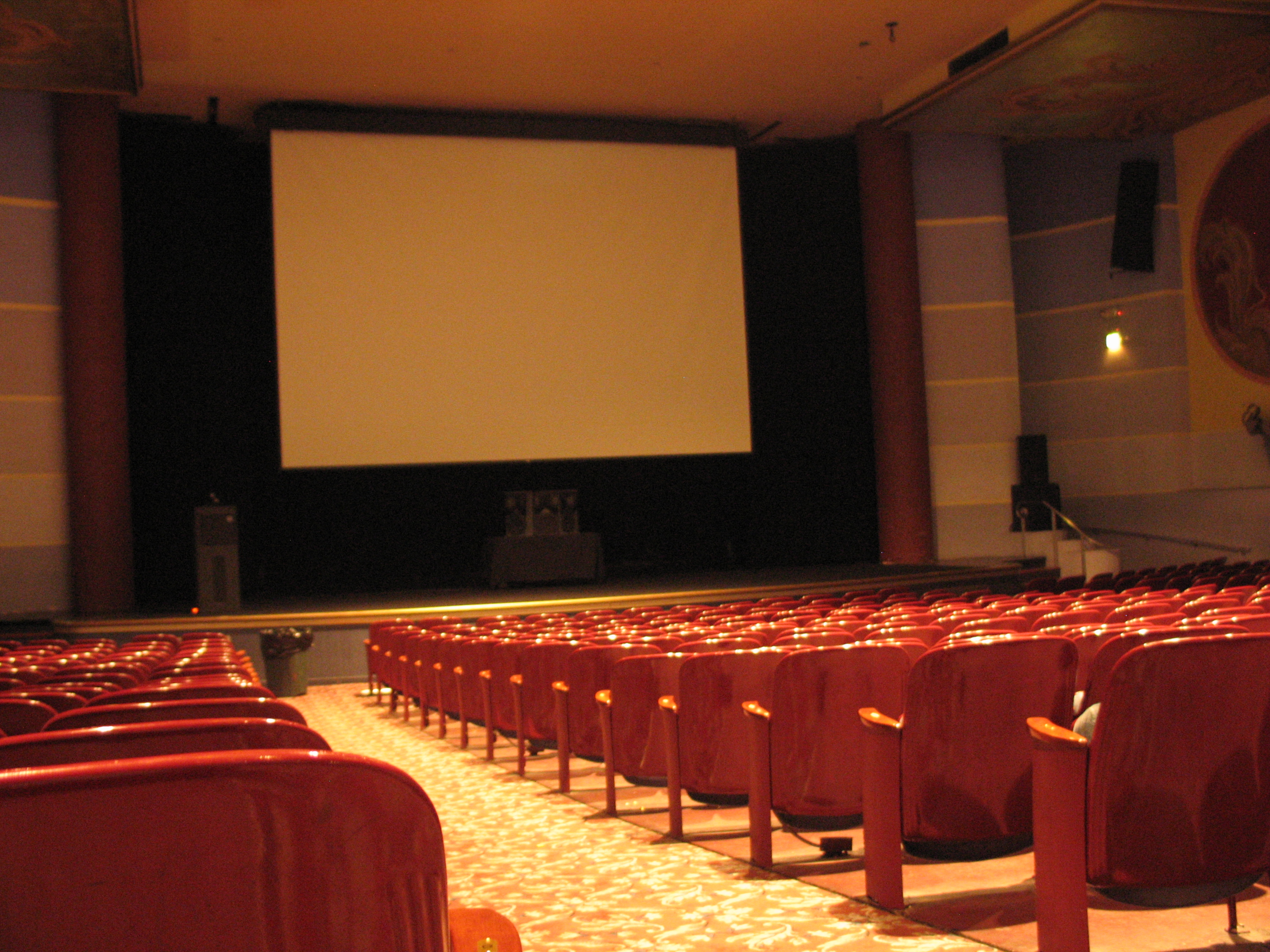 Interior of the NRHP-listed Tower Theatre in Fresno, California.